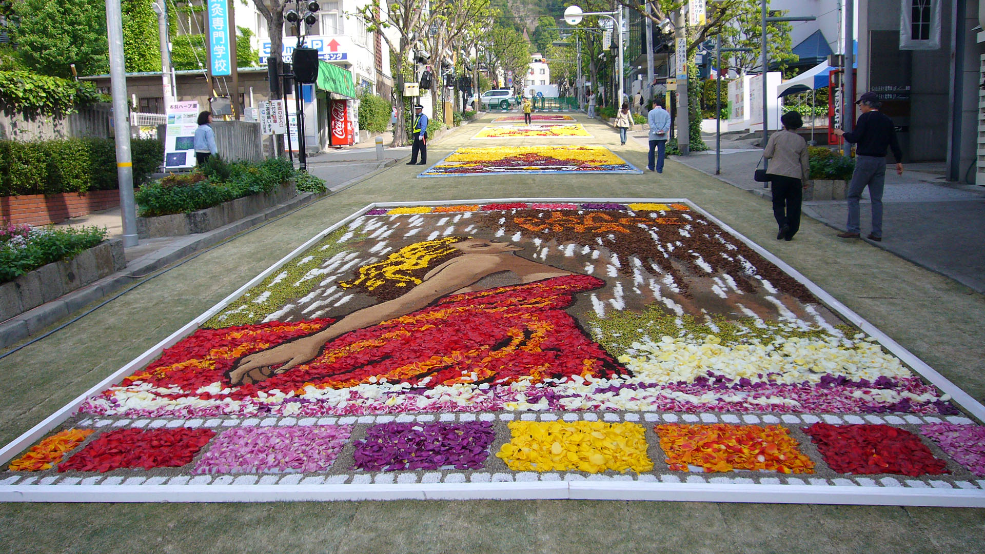 Infiorata Kobe 2006 at Kitanozaka in Kobe, Hyogo prefecture, Japan